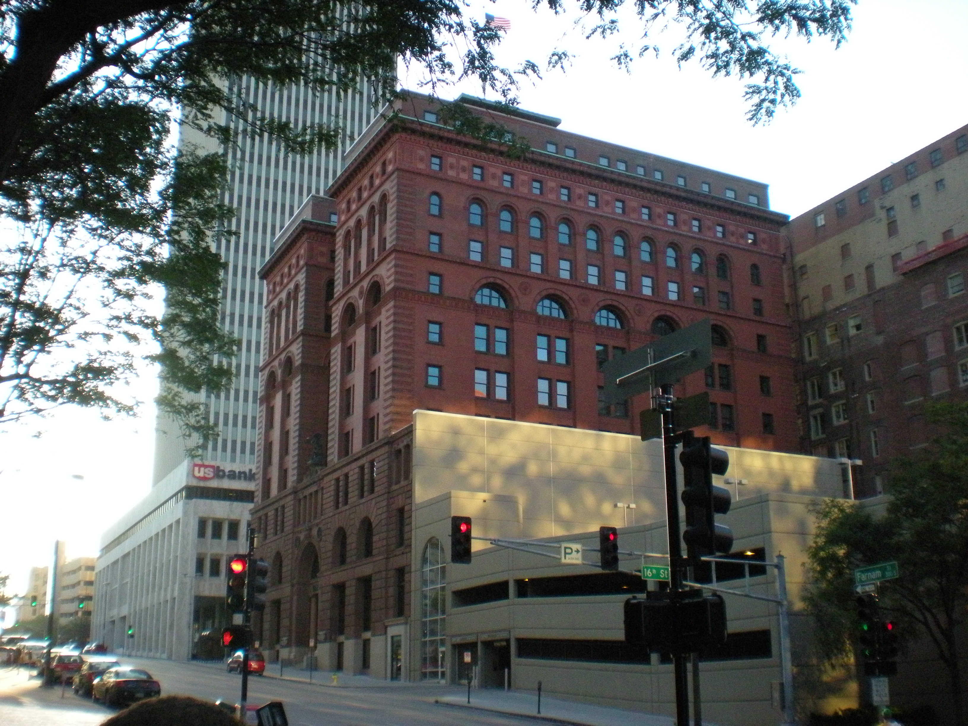 I took this photo of the Omaha National Bank Building in 2008